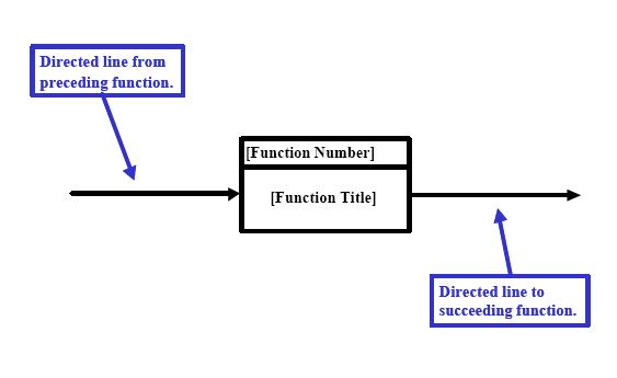 4 Directed Lines